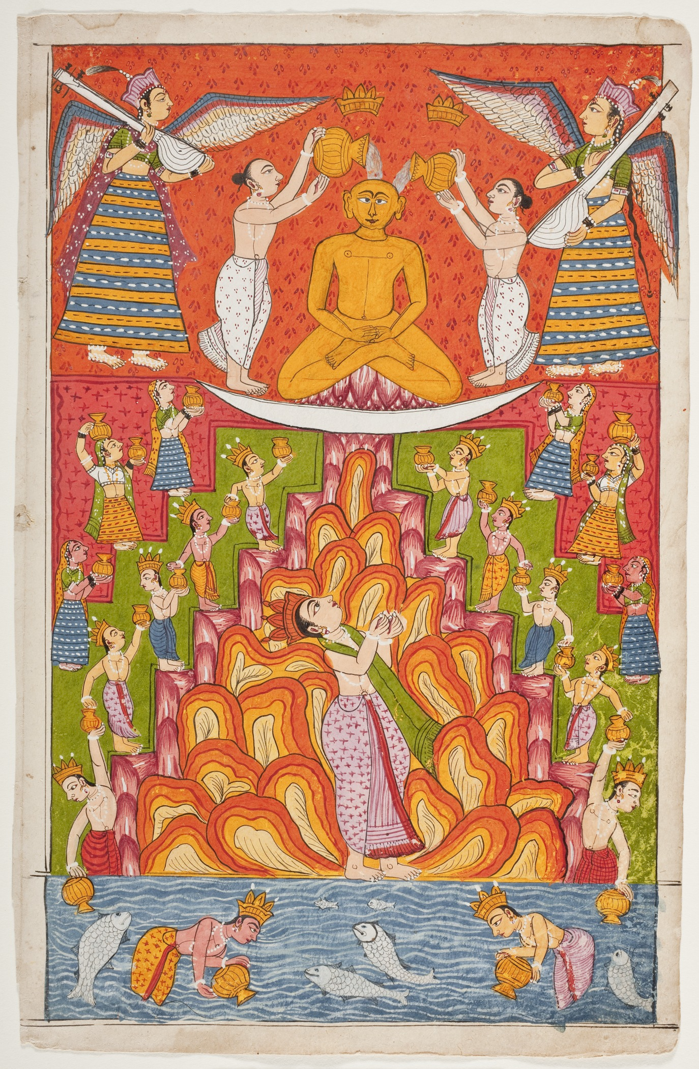 India, Gujarat, circa 1800-1825 Drawings; watercolors Opaque watercolor on paper Sheet: 11 1/4 x 7 3/8 in. (28.58 x 18.73 cm); Image: 10 3/4 x 6 7/8 in. (27.3 x 17.46 cm) Gift of Leo S. Figiel, M.D. (AC1992.170.2) South and Southeast Asian Art